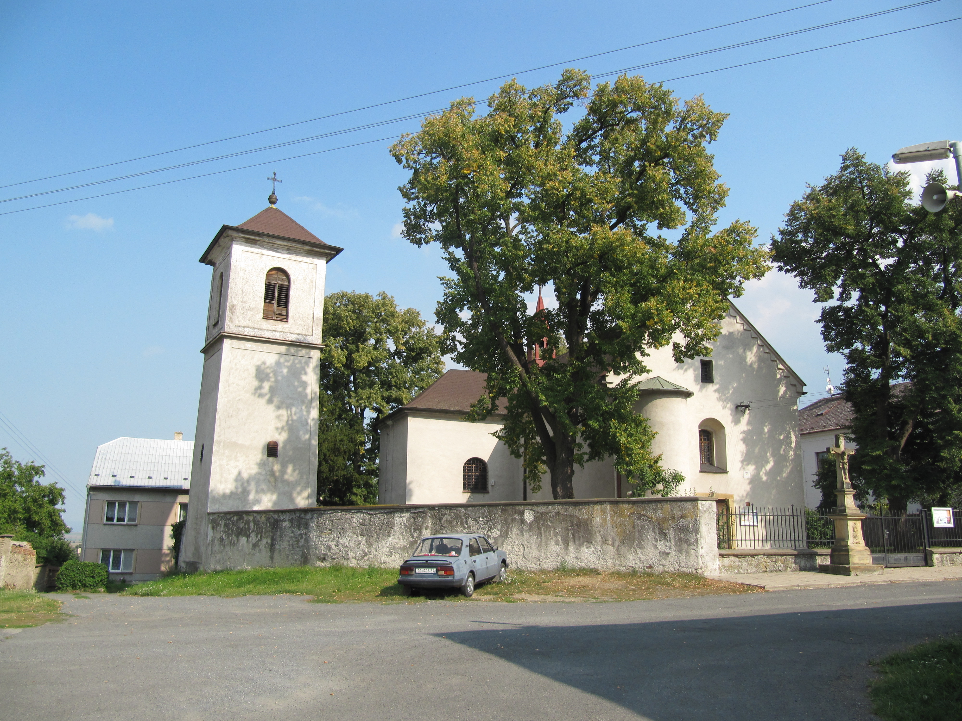 Drahanovice in Olomouc District, Czech Republic. Church of St. James the Greater. Building from 1742 has a medieval core. Bell-tower, a two-storey square Renaissance tower from 16th century, rebuild in the 18th century and modernized in the 20th century.